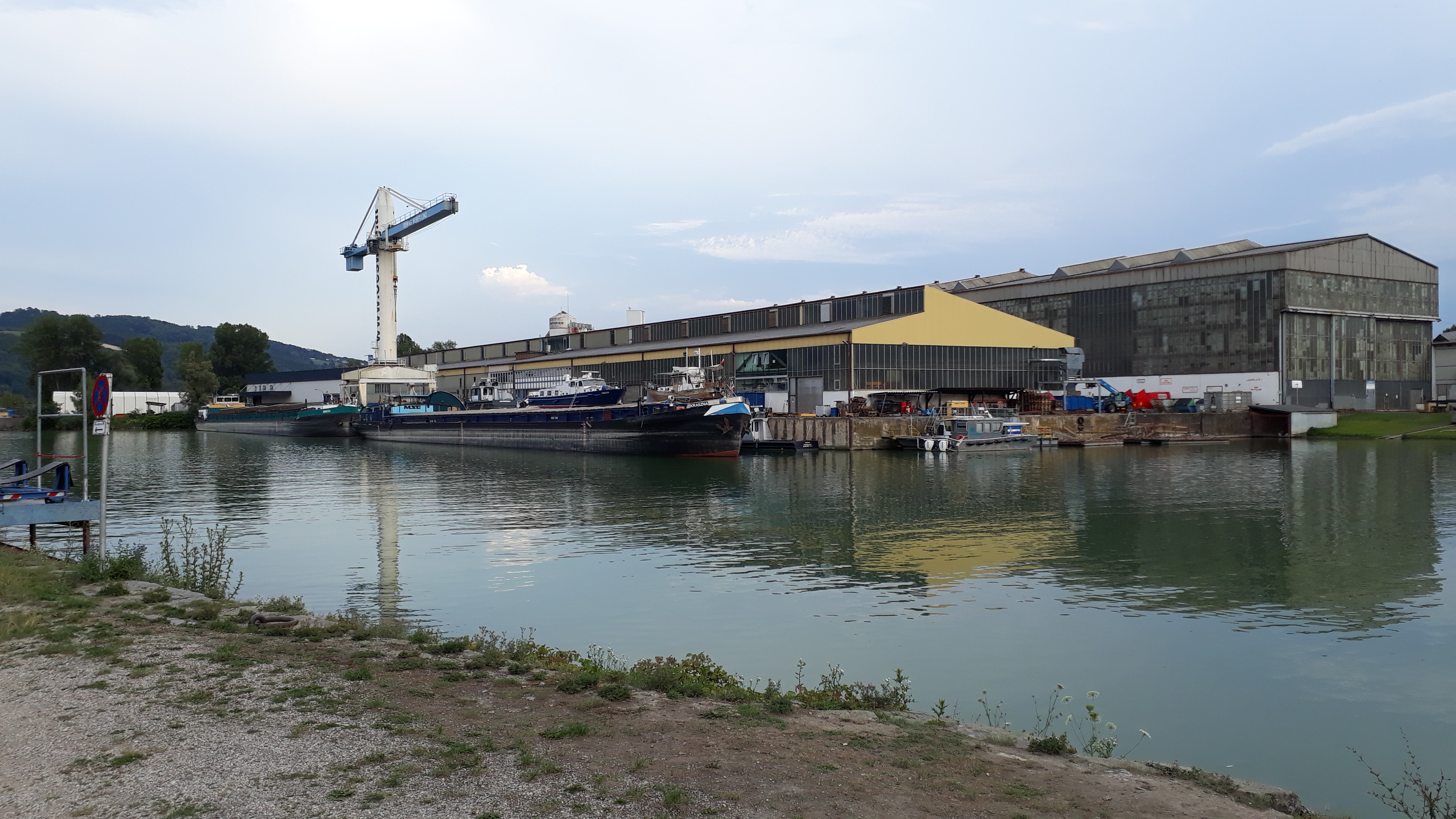 Austrian shipyards AG (ÖSWAG) in Linz (Upper Austria) at the winter harbor.